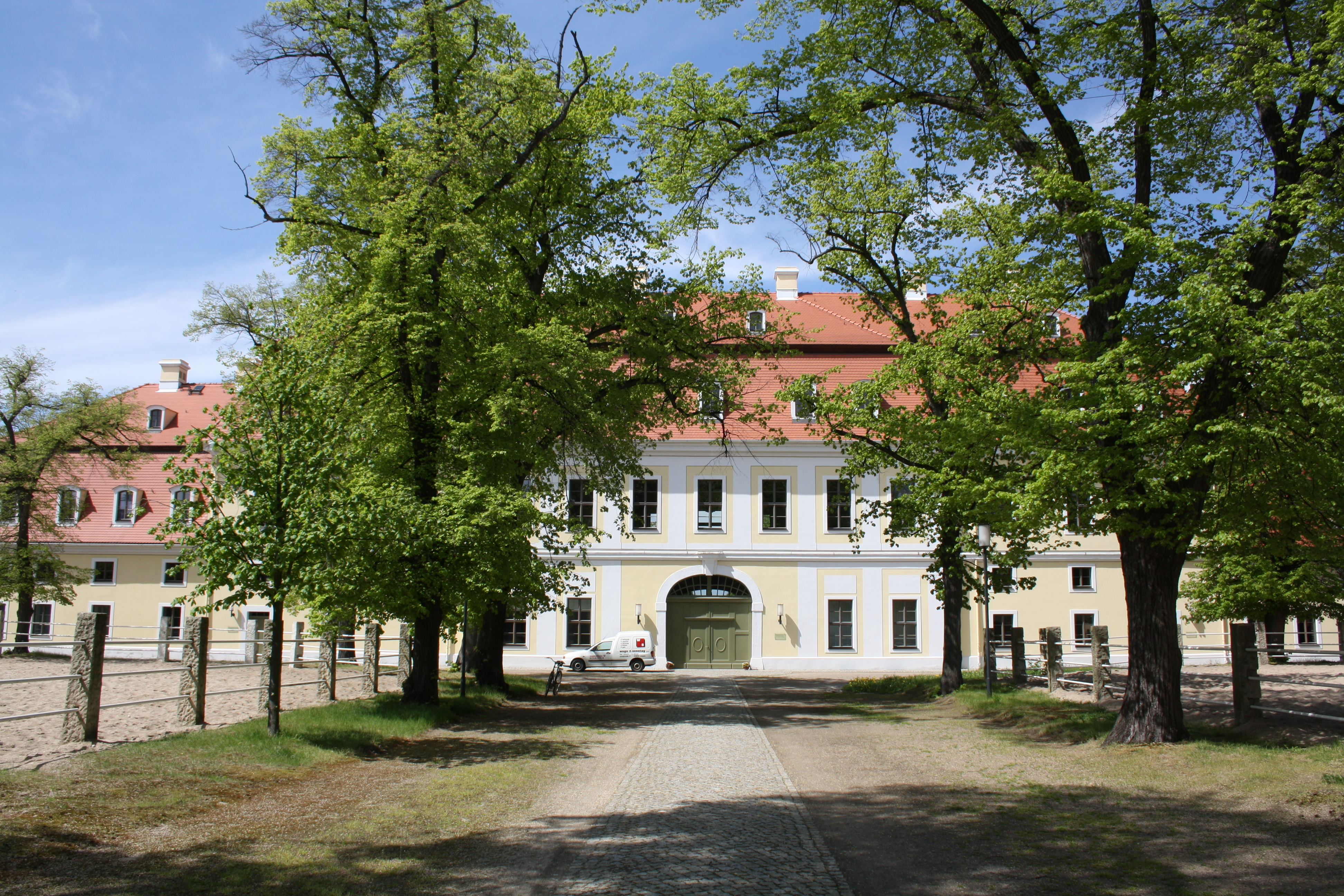 Castle Graditz